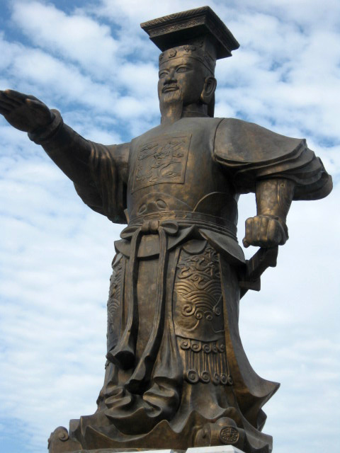 Statue of Dinh Tien Hoang Emperor, the founder of Dinh Dynasty in Viet Nam